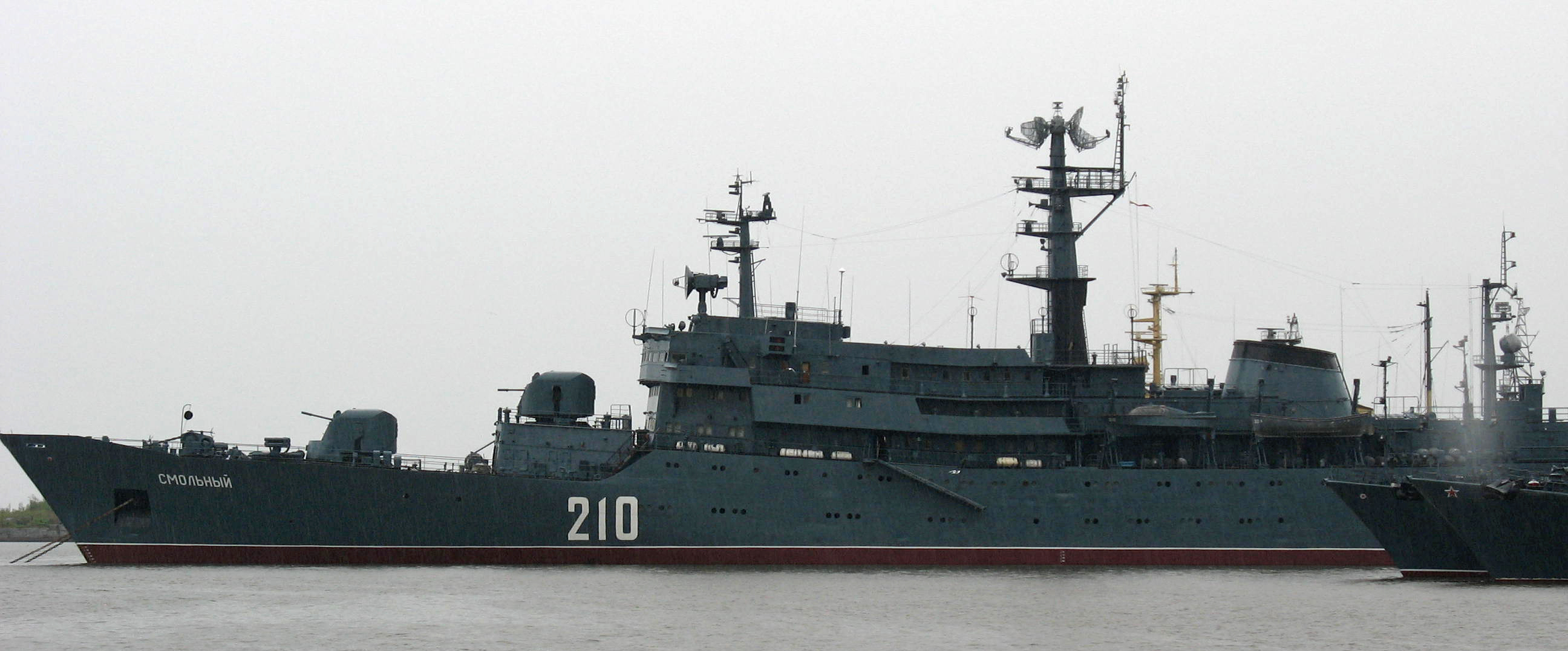 Educational base "Smolnyj". Kronstadt, Average harbour.